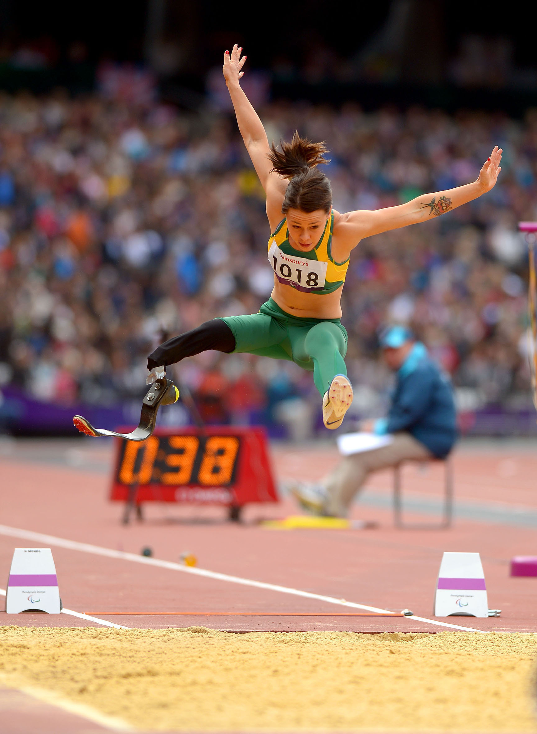 Photograph of Australian Paralympic team member Kelly Cartwright at the 2012 Summer Paralympic Games in London